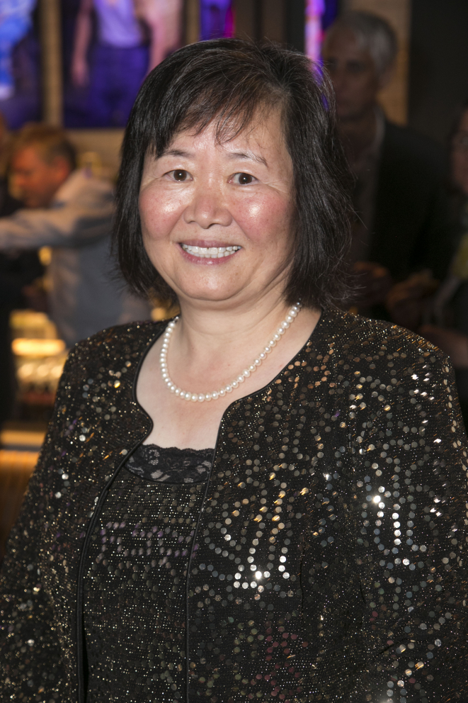 Shuping in London